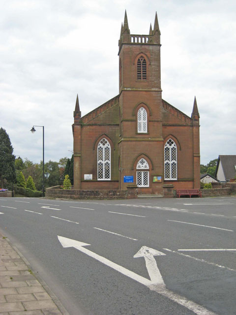 Lochmaben Parish Church At the south end of the town centre. Built 1820.